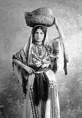 Arabic traditional dress of Ramallah